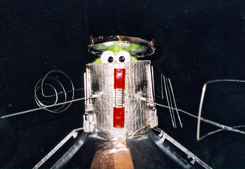 ALIEN, completely radio-controlled puppet, Nikolai Zykov Theatre, Russia. Nikolai Zykov - Soviet and Russian actor, producer, artist, designer, puppet-maker, master puppeteer, author of over 20 puppet performances. Nikolai Zykov has created and has made over 80 puppet vignettes with participation of marionettes, hand, rod, giant, radio-controlled and experimental puppets. Nikolai Zykov has performed in 35 countries around the world.